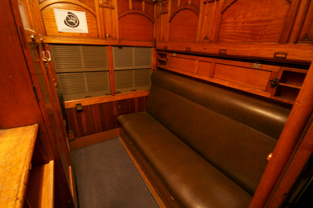 Interior of E type carriage sleeping car Acheron, seat in day-time position